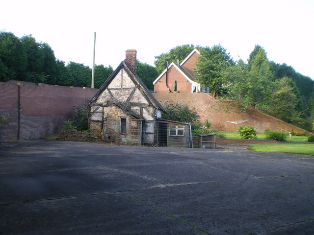 Timber framed cottage at Tong Forge